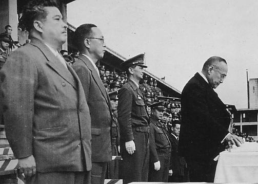 Military parade celebrating establishment of NSF(National Safety Force of Japan)